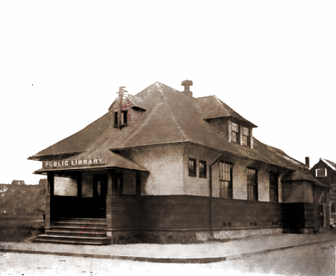 Many of Cranston Public Library's branch locations have seen multiple sites. This is the site of the Arlington neighborhood library in 1901.